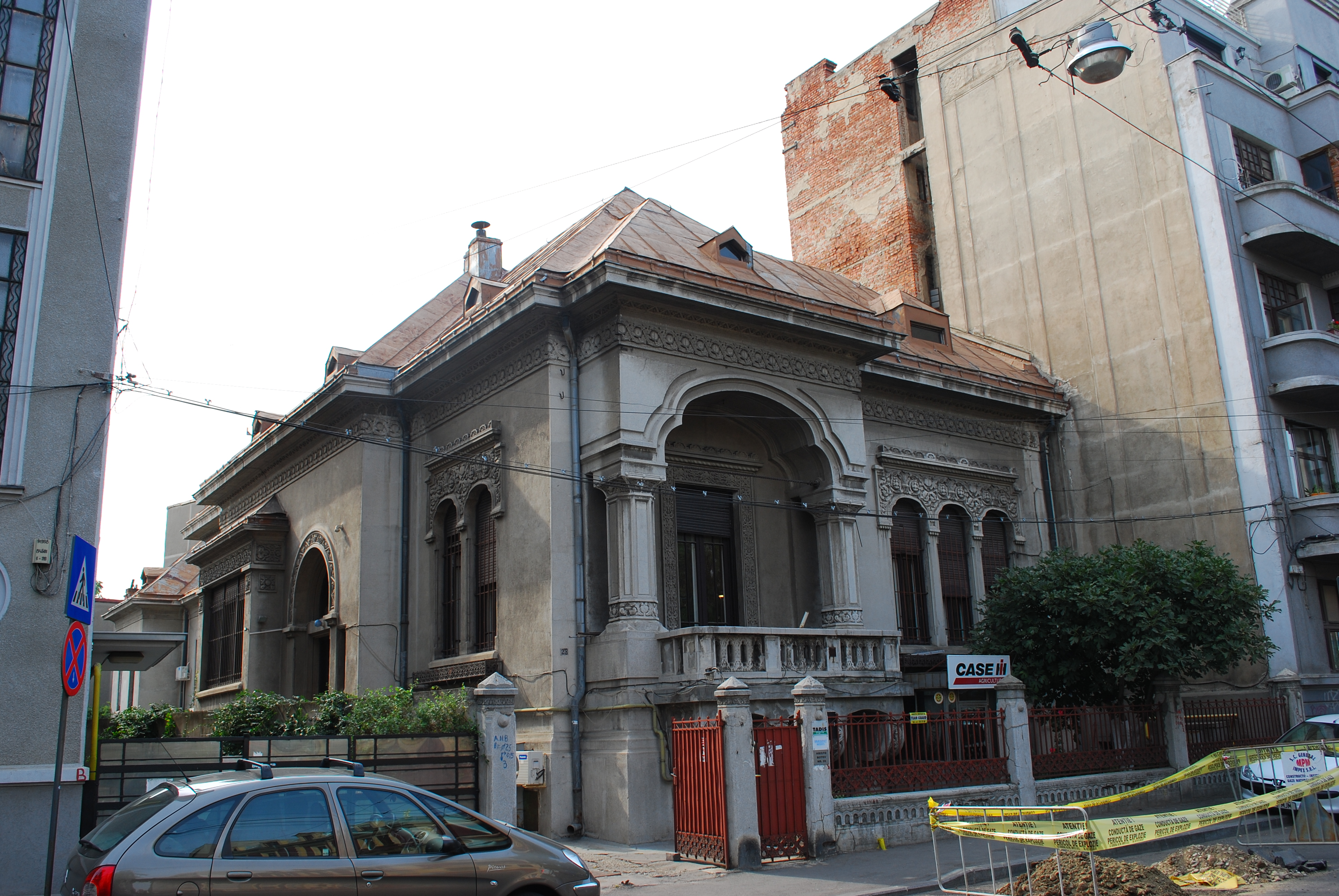 Historic building in Bucharest, Romania, on Hristo Botev street 28